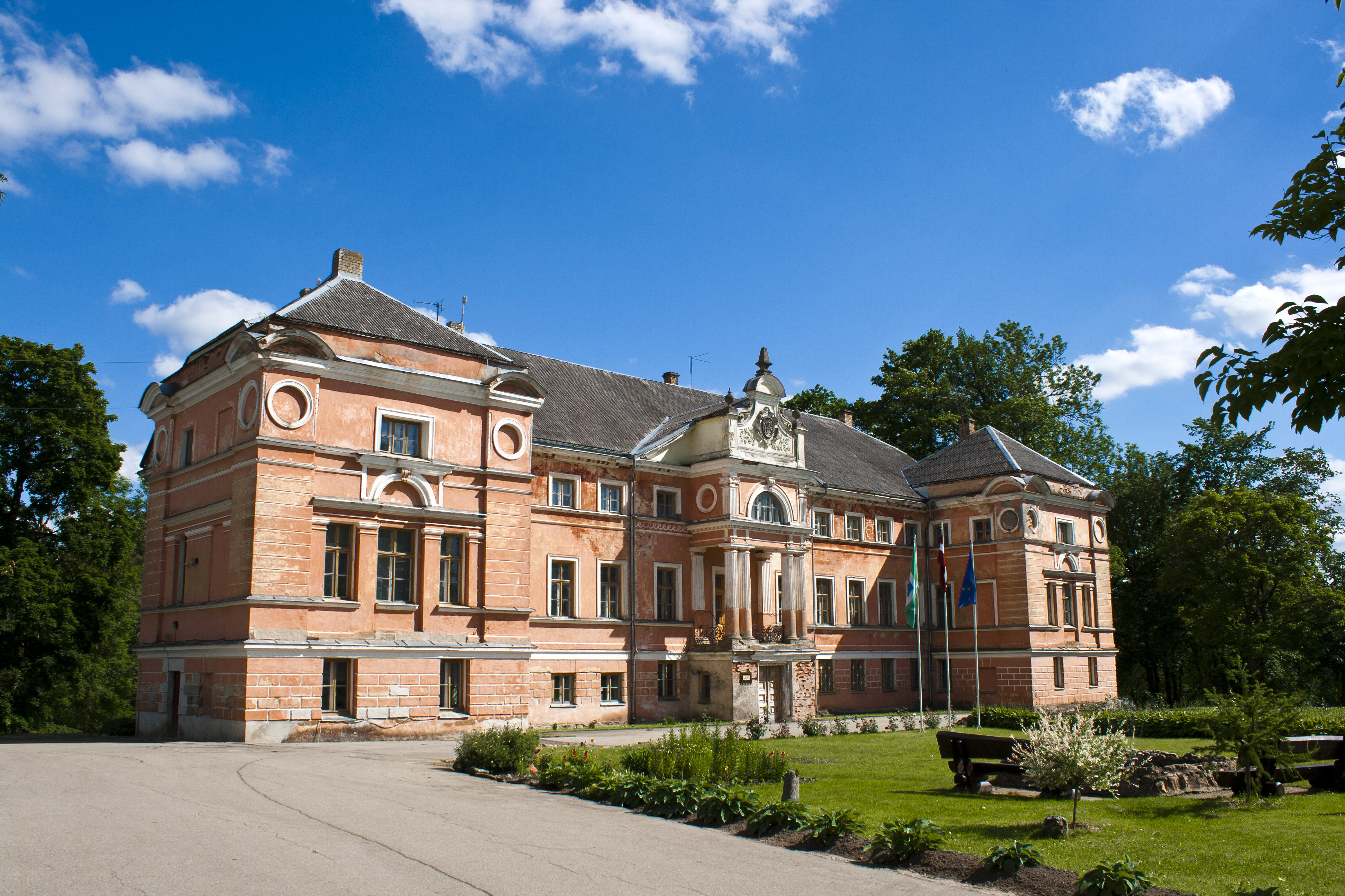 Remte ManorLatviešu: Remtes muižas pils